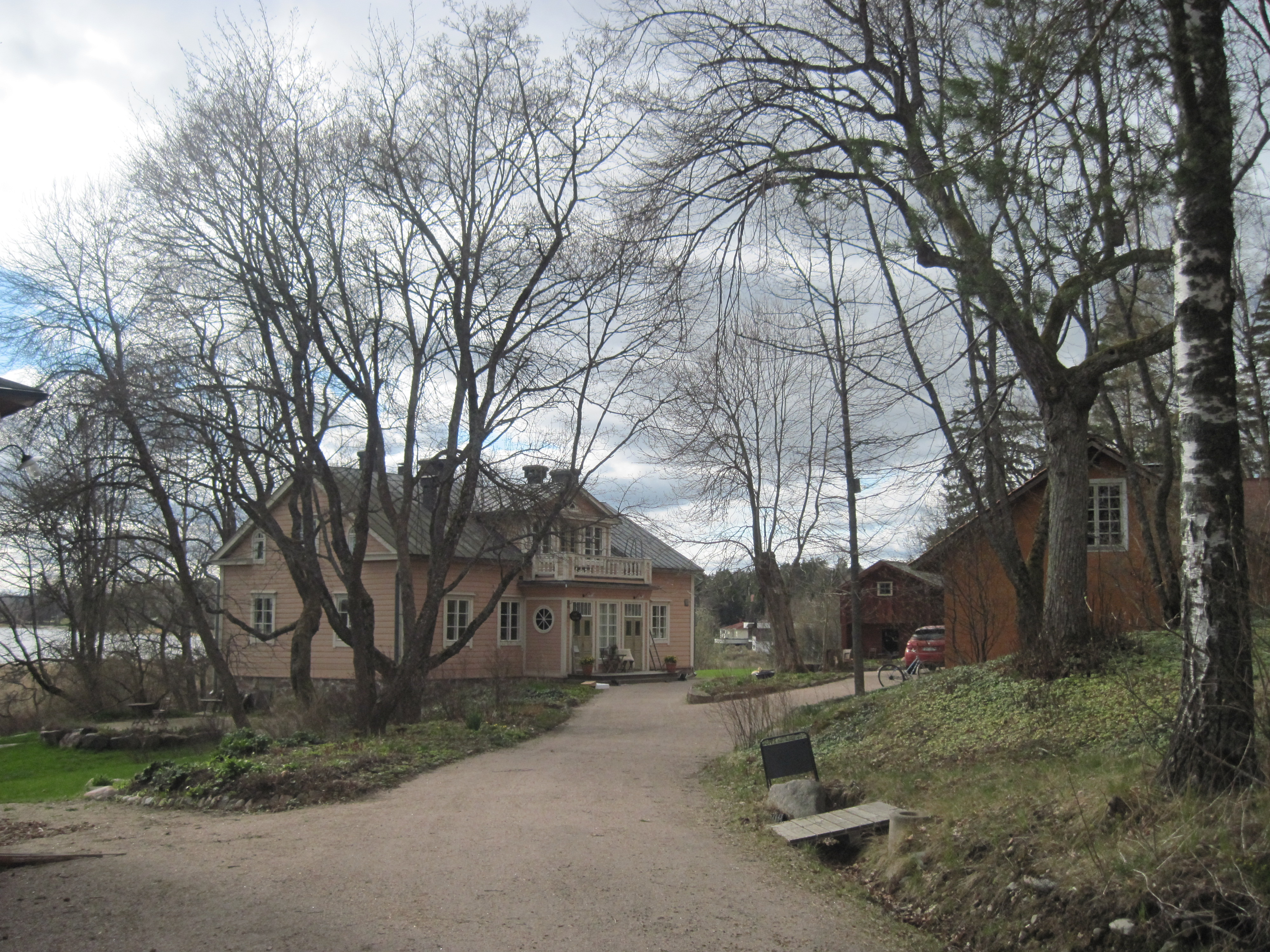 Manor of Bastvik at Espoo, Finland